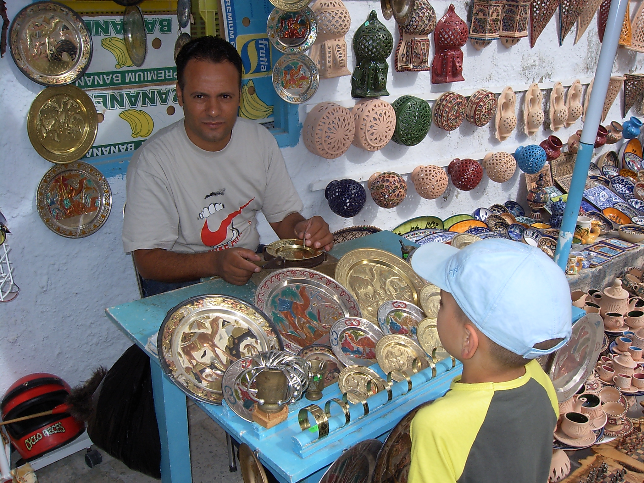 Street craftsman from Tunisia